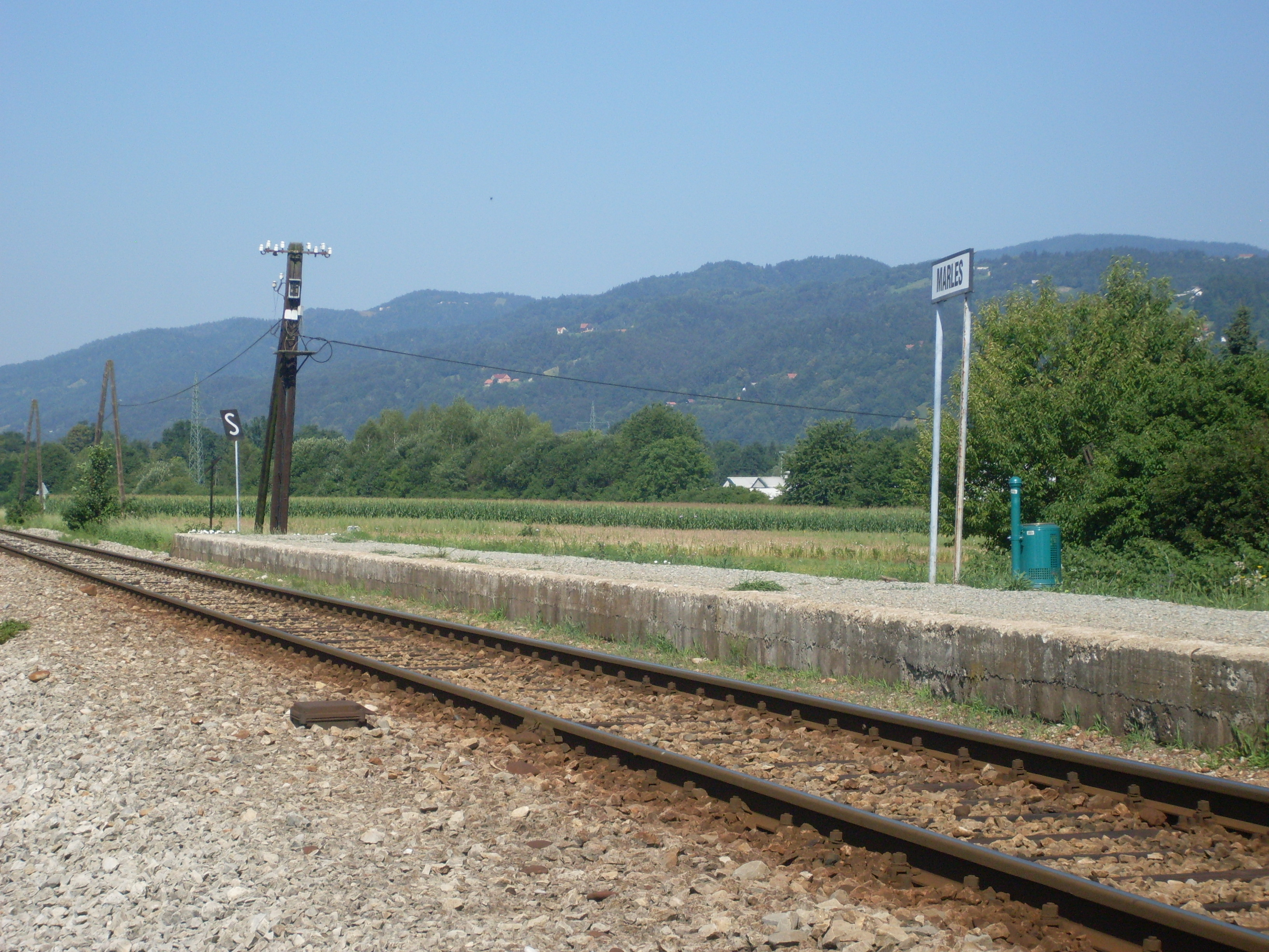 Railway halt Marles, located between Maribor and Limbuš, suitable for commuters to the factory Marles.